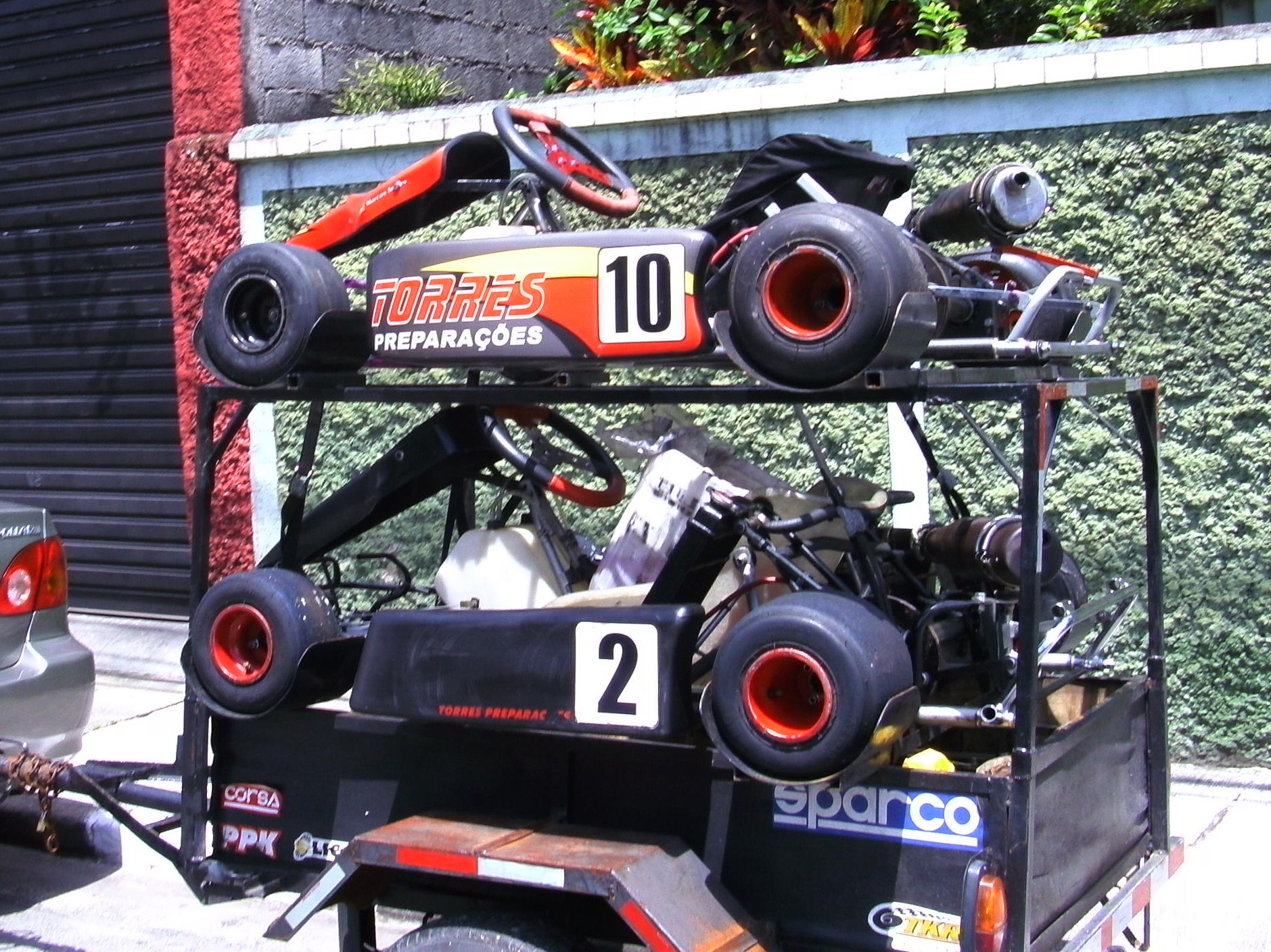 Kart made in Brazil 2008